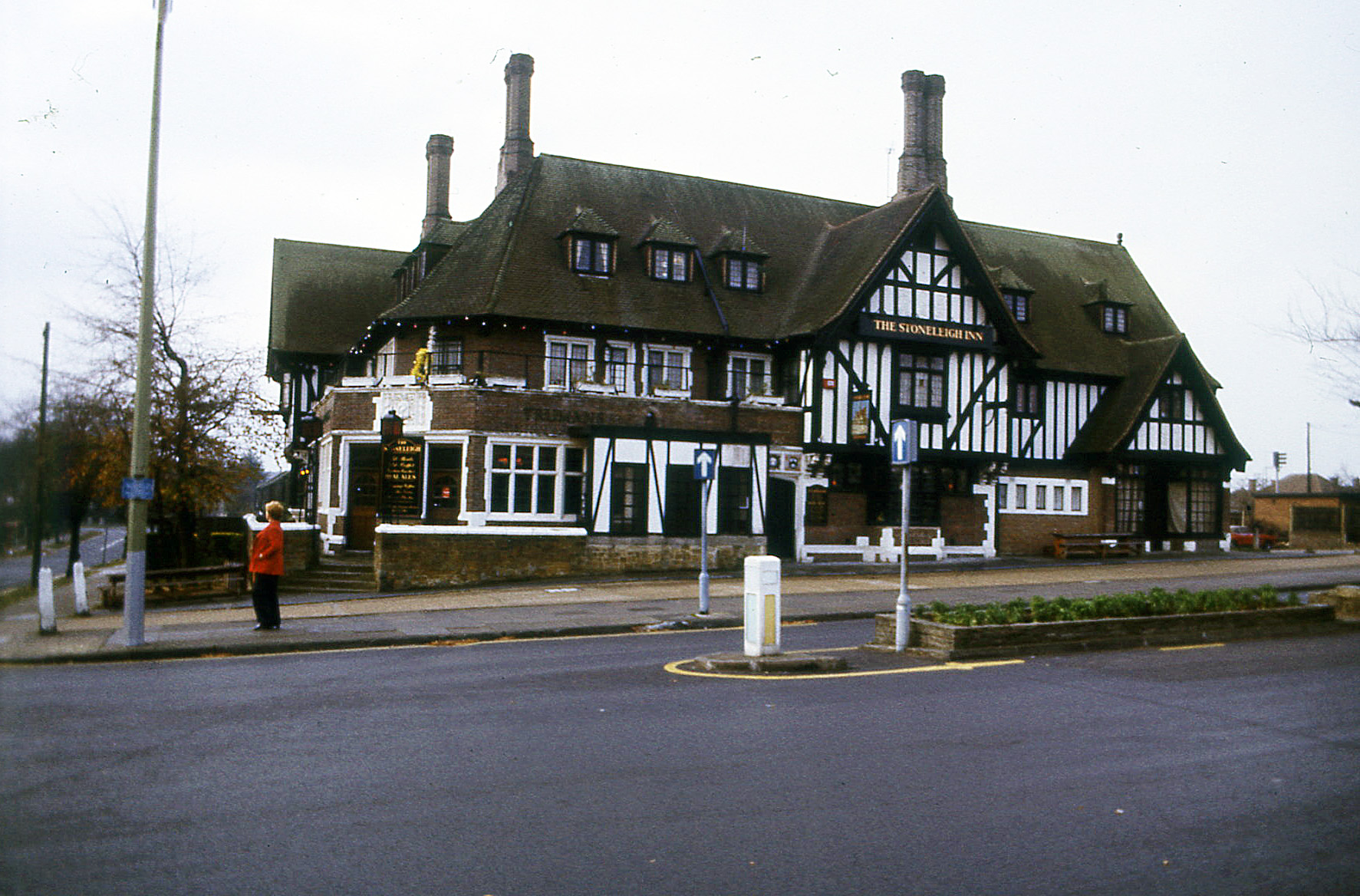 Stoneleigh Inn 1980's